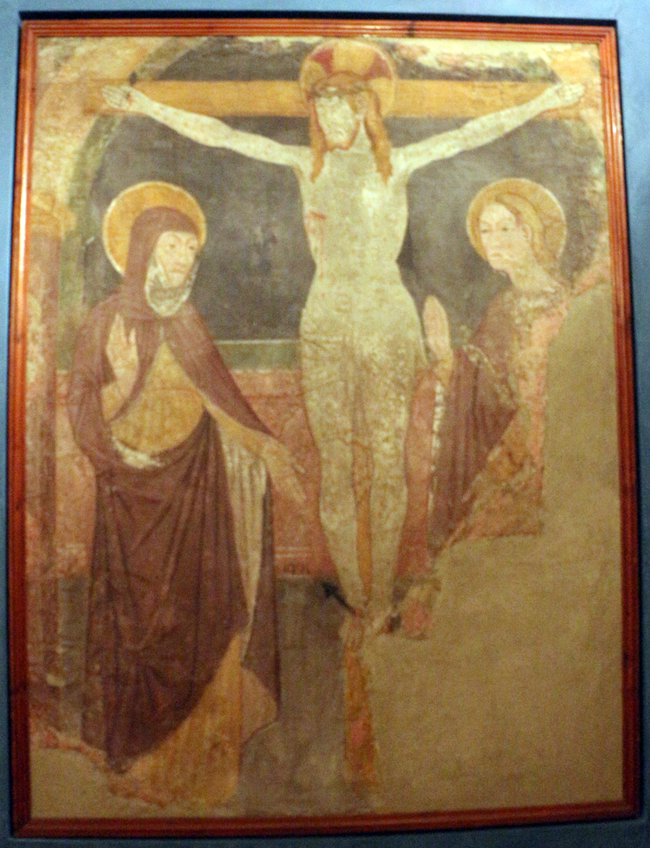 Museo Adriano Bernareggi